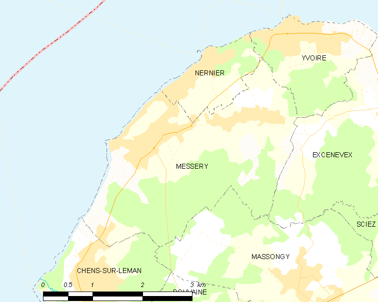 Map of French municipality Messery